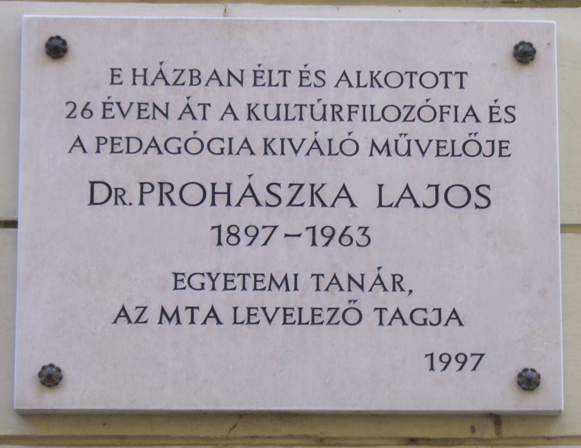 Lajos Prohászka commemorative plaque in Budapest District I, Móra Ferenc Street No 2/b